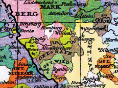 Counties of Wied (green) and Sayn (brown) around 1400